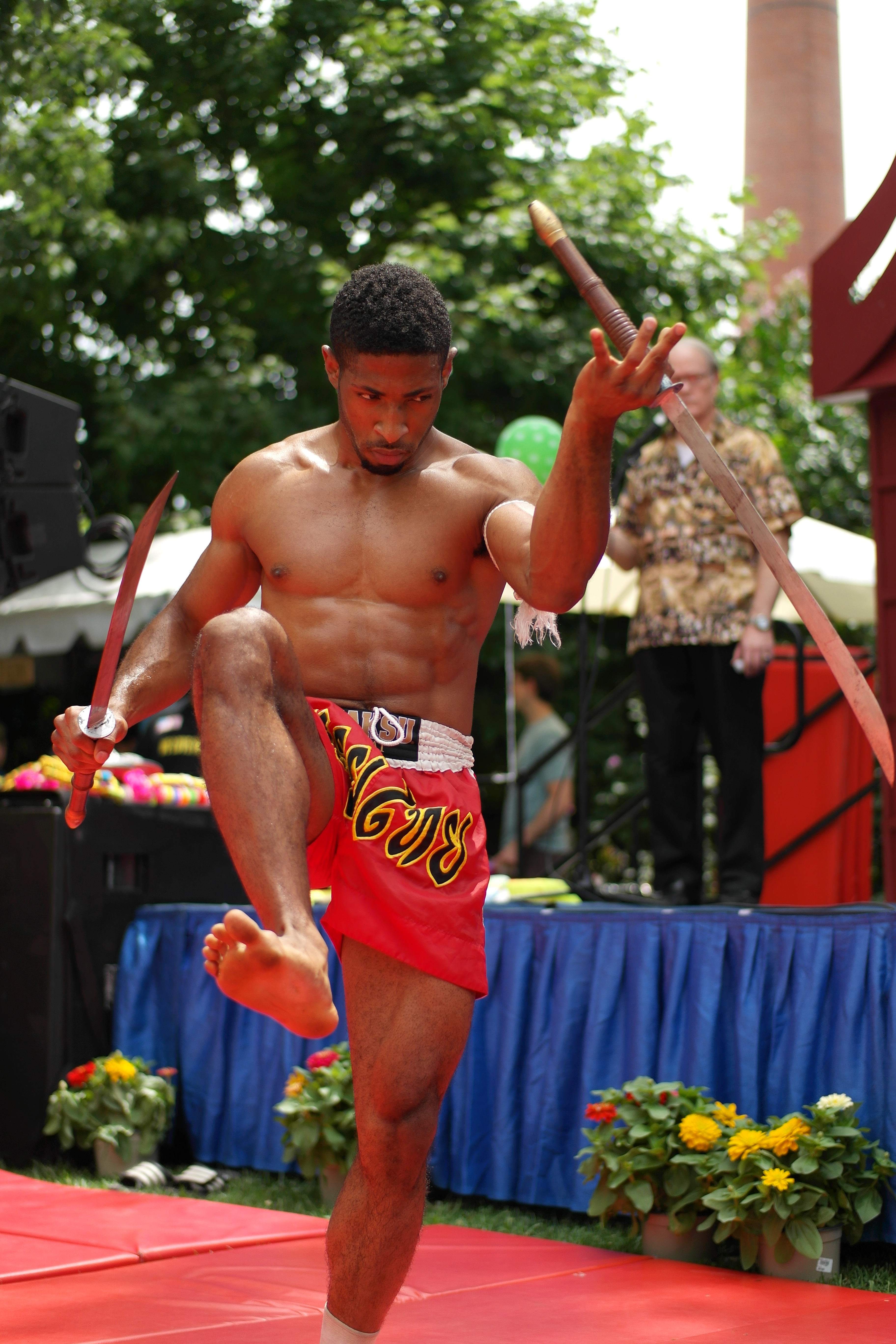 Thai Village 2014